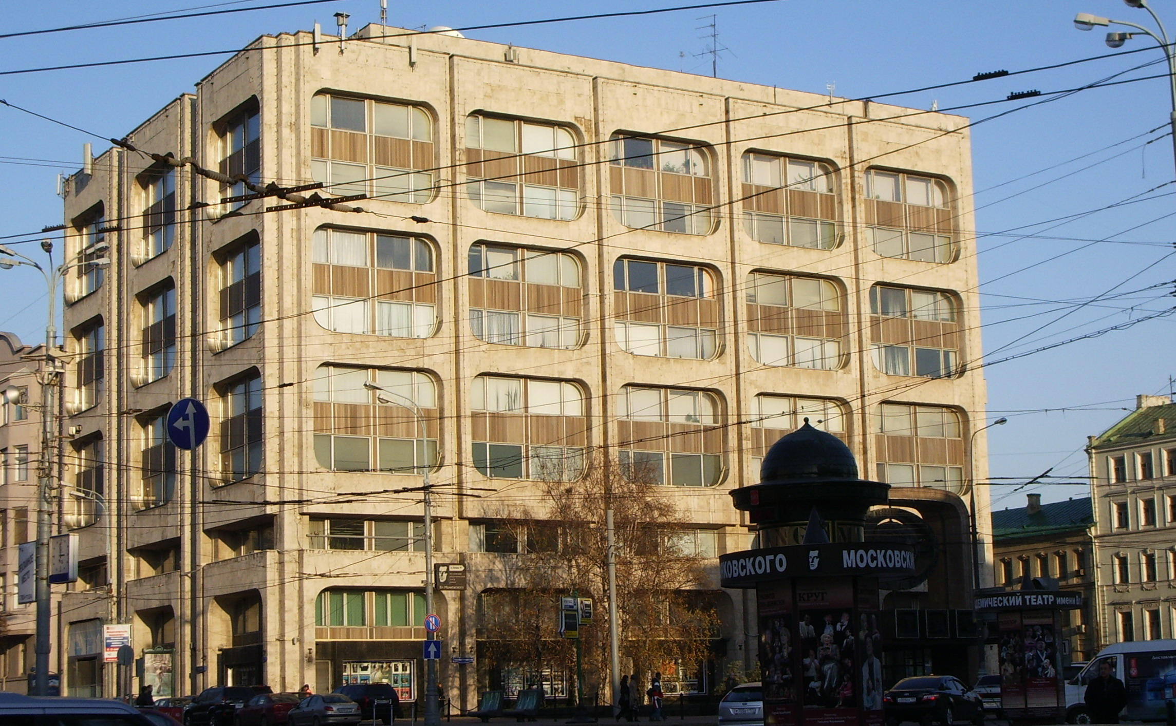 The Building of Information Telegraph Agency of Russia (ITAR-TASS), Moscow, Tverskoy Boulevard, 10-12.